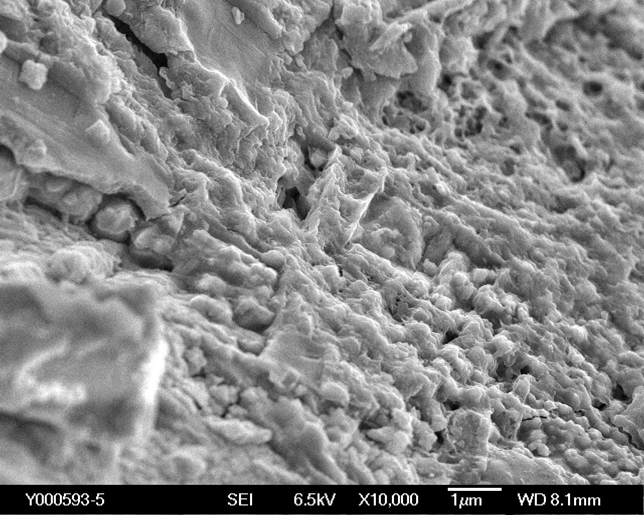 This is a scanning electron microscope (SEM) picture of the bumpy surface from a crack filling covering a chip of martian meteorite Yamato 000593, recovered from Antarctica by the Japanese Polar Team. This bumpy surface is very similar to the ones in Nakhla.